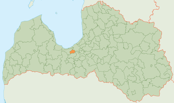 Map of Mārupe